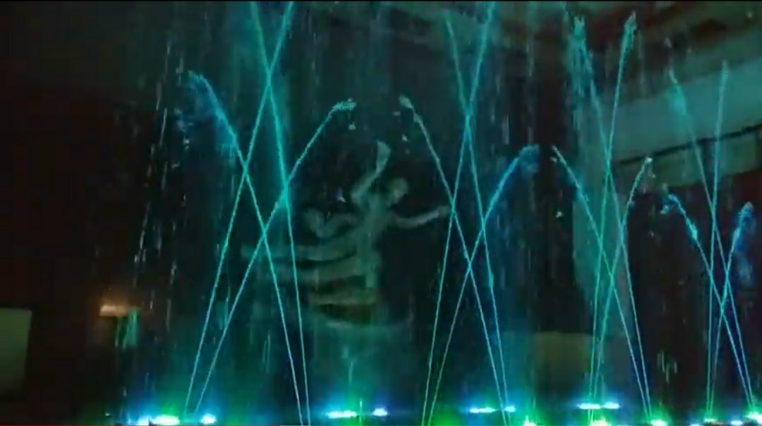 Waltzing water